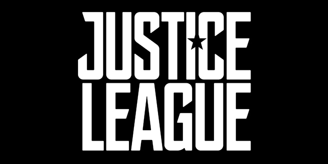 This is a poster for Justice League. The poster art copyright is believed to belong to the distributor of the film, Warner Bros., the publisher of the Film or the graphic artist.